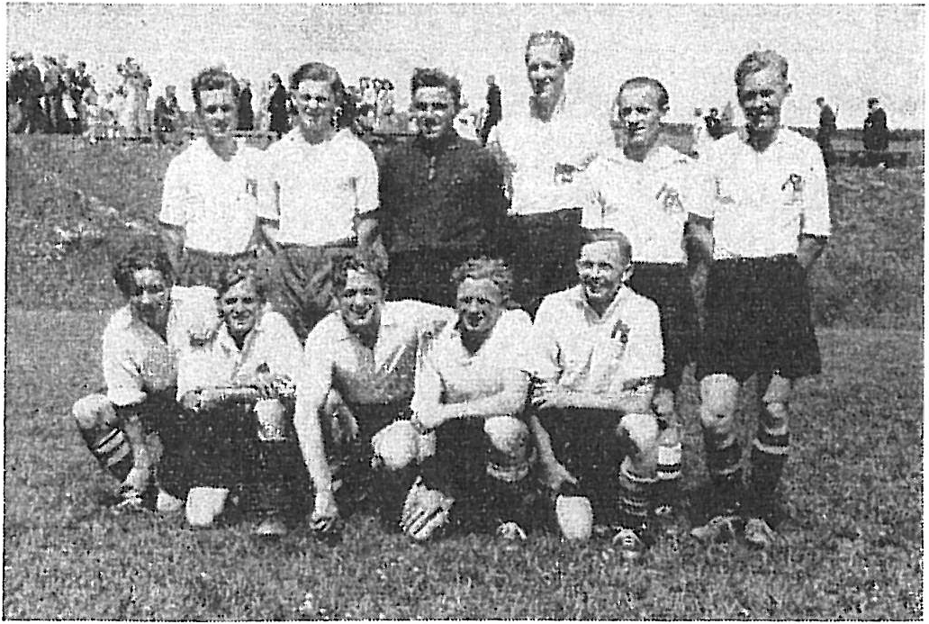 First squad players of Maaløv Boldklub — Group photo of the team participating in the local "A-rækken", in 1942, administrated by Sjællands Boldspil-Union (SBU).